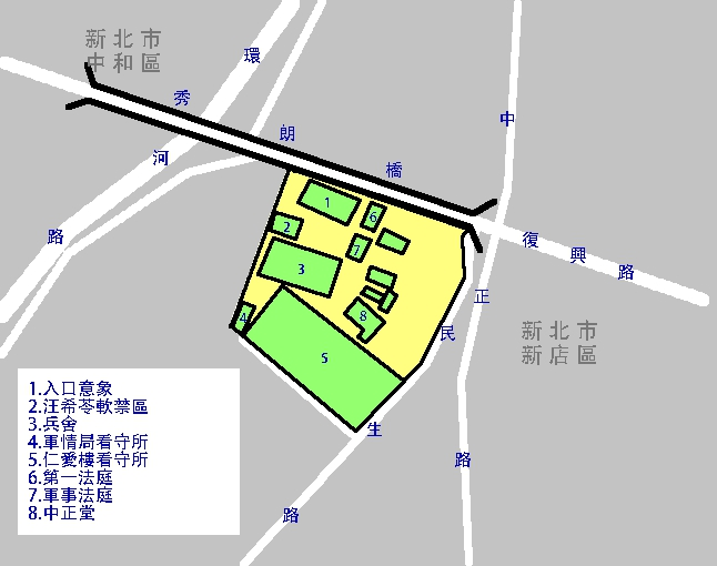 Map of Jing-Mei Human Rights Memorial and Cultural Park